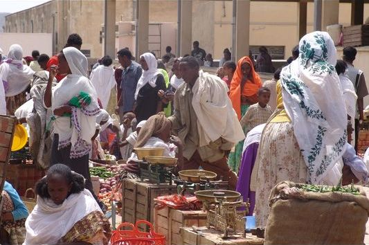 Dekemhare, Eritrea